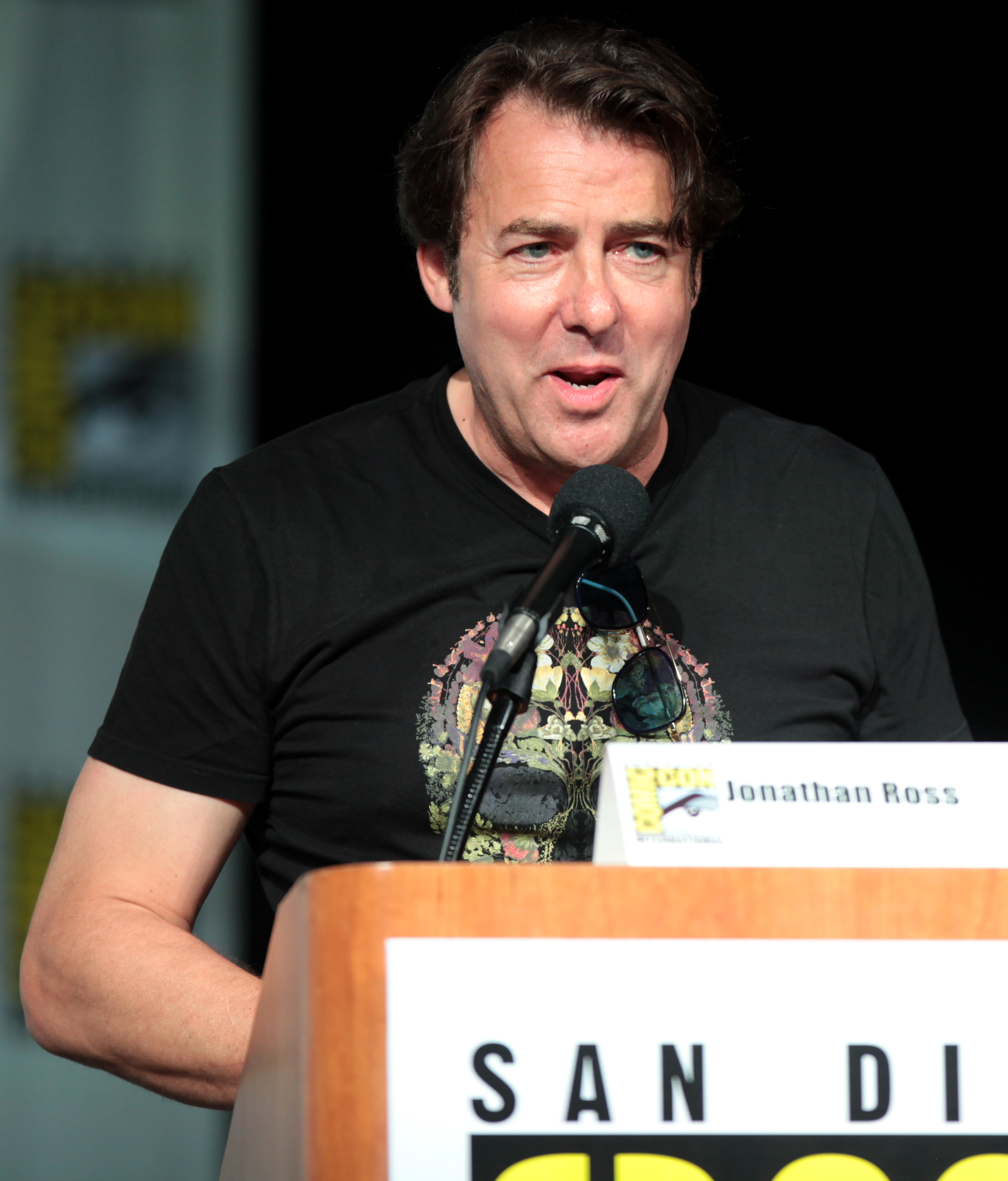 Jonathan Ross speaking at the 2014 San Diego Comic-Con International in San Diego, California.